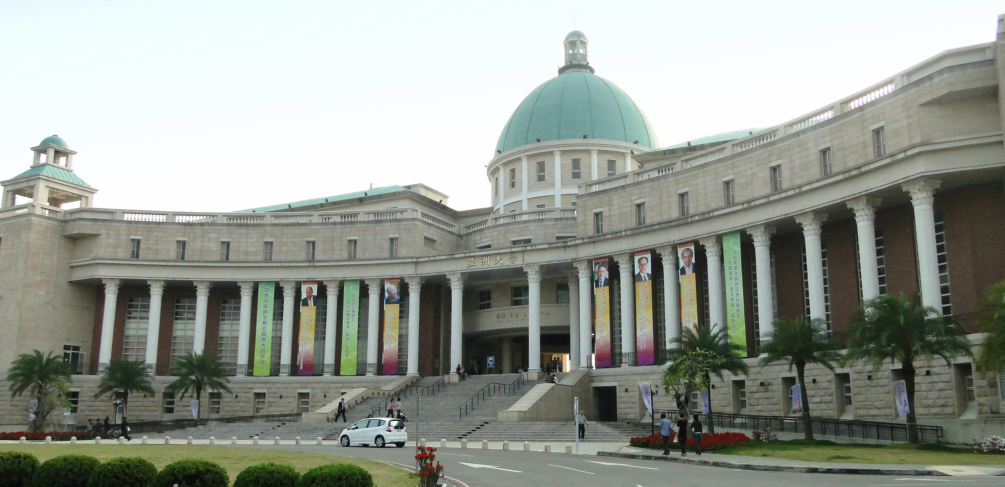 Administration Center & Library, Asia University.